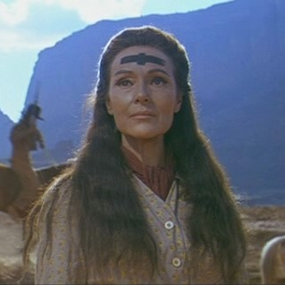 Dolores del Río in "Cheyenne Autumn" (1964)